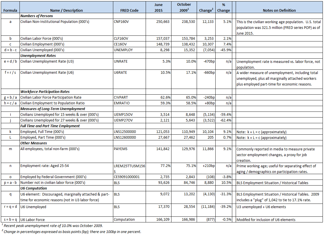 US employment statistics from the FRED database. This table should help in learning the key FRED employment data series and how they relate mathematically. Other information US employment statistics from the FRED database. This table should help in learning the key FRED employment data series and how they relate mathematically.